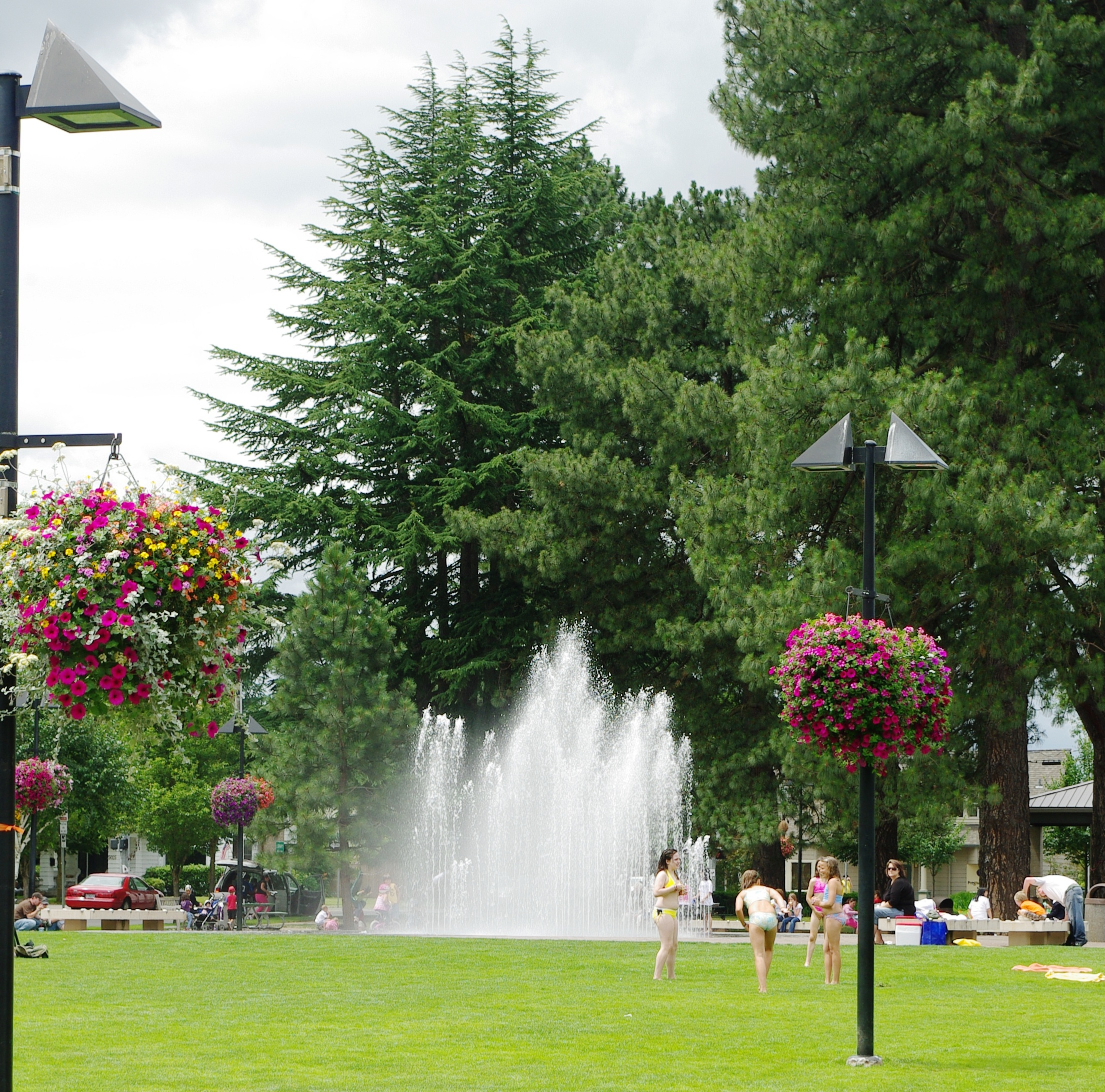 City Park in Beaverton, Oregon